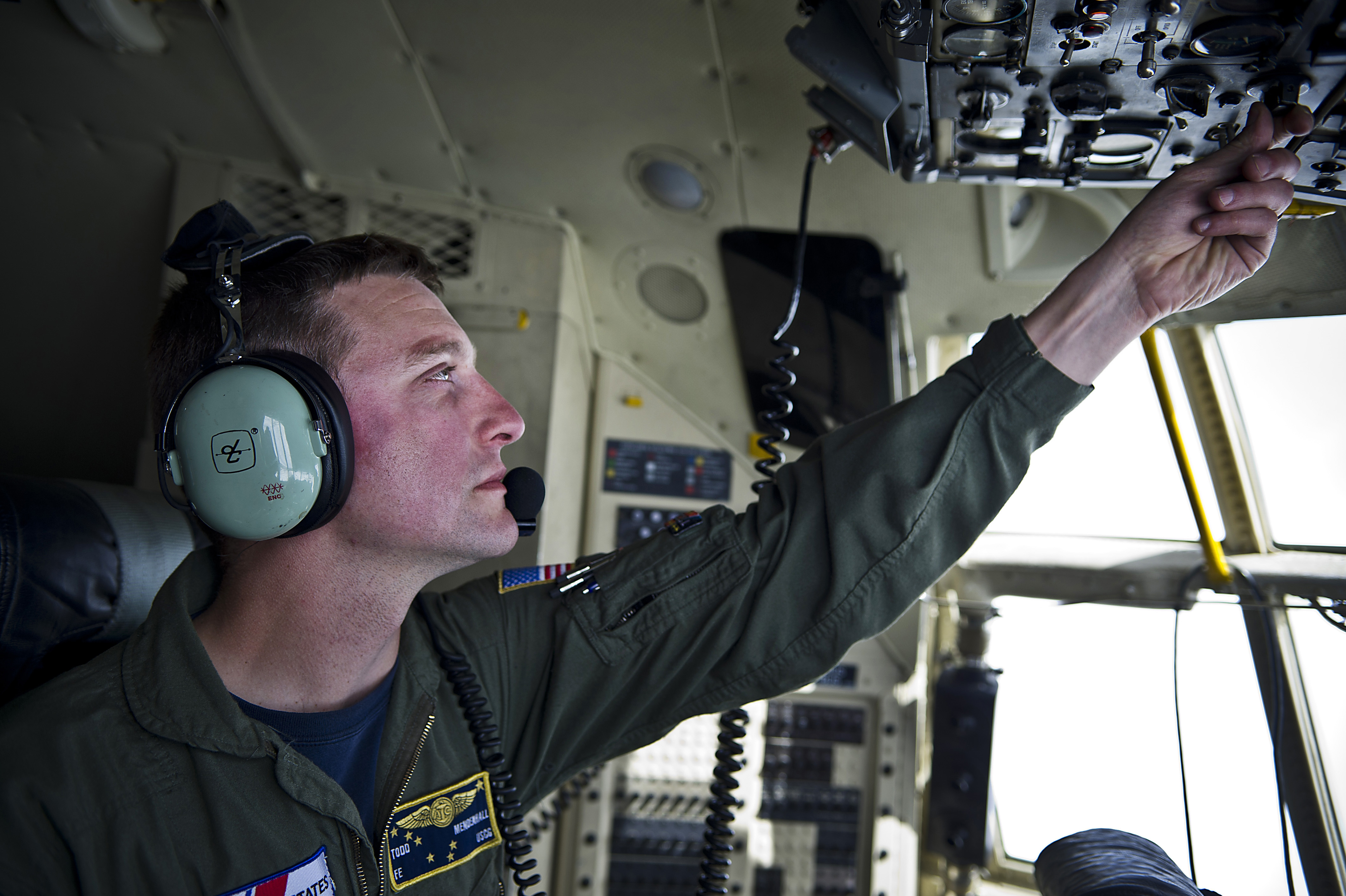 U.S. Coast Guard Petty Officer 2nd Class Todd Mendenhall, an aviation maintenance technician flight engineer, flies in a HC-130H Hercules aircraft over the Bering Sea during a logistics mission to Barrow, Alaska, June 28, 2012. Coast Guardsmen from Air Station Kodiak flew daily missions to Barrow in preparation for a Coast Guard deployment to Arctic Shield, a temporary air station operating in the Arctic Ocean during the summer to increase search and rescue response times in the region.